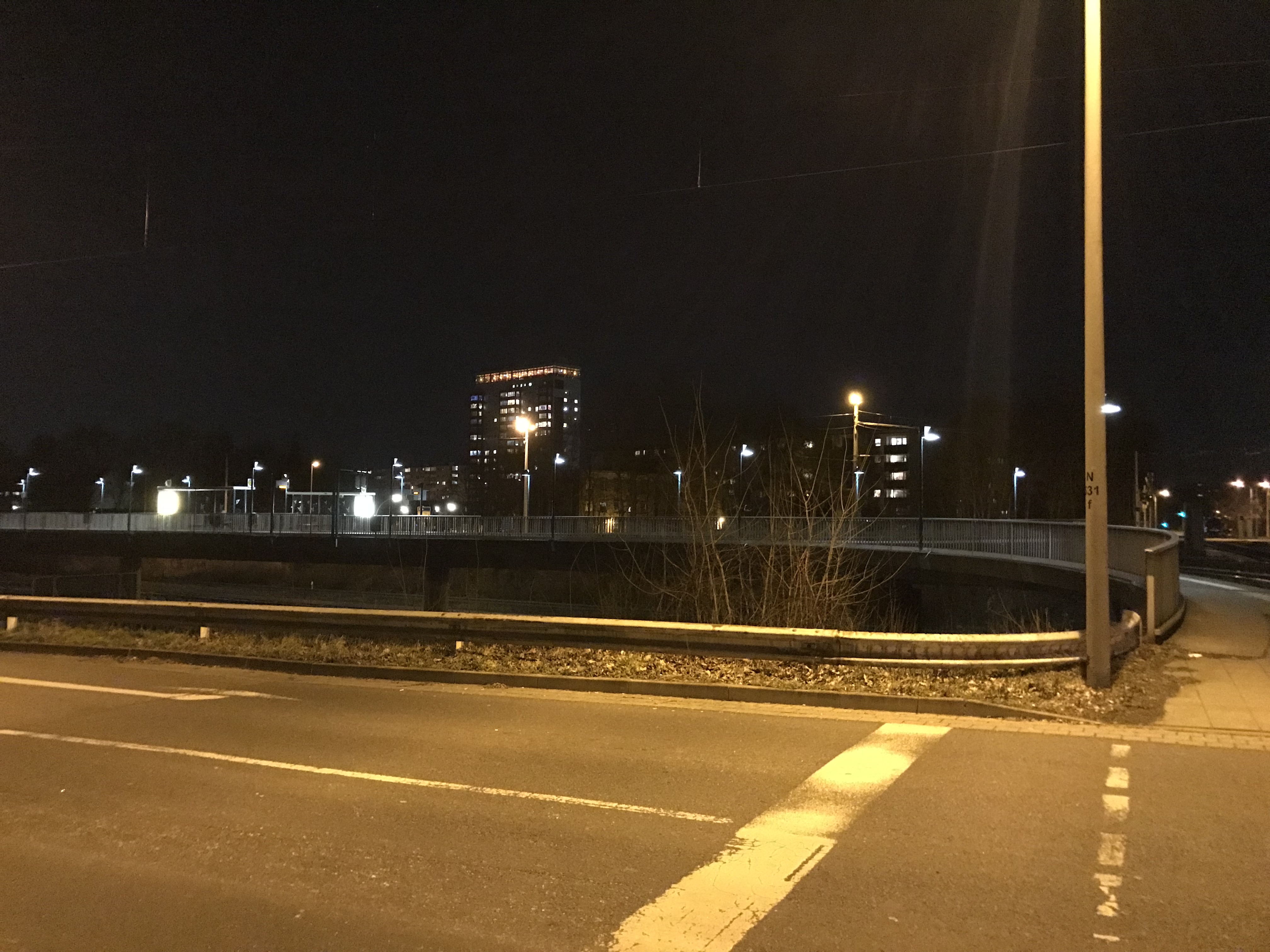 The Skyline of Heidberg, a district in Braunschweig